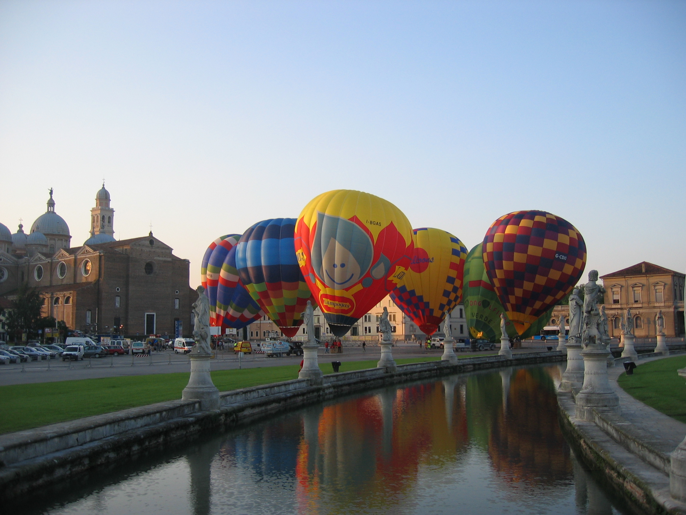 Hot air balloons in Prato della Valle and Basilica of St Justine, Padua (Italy)